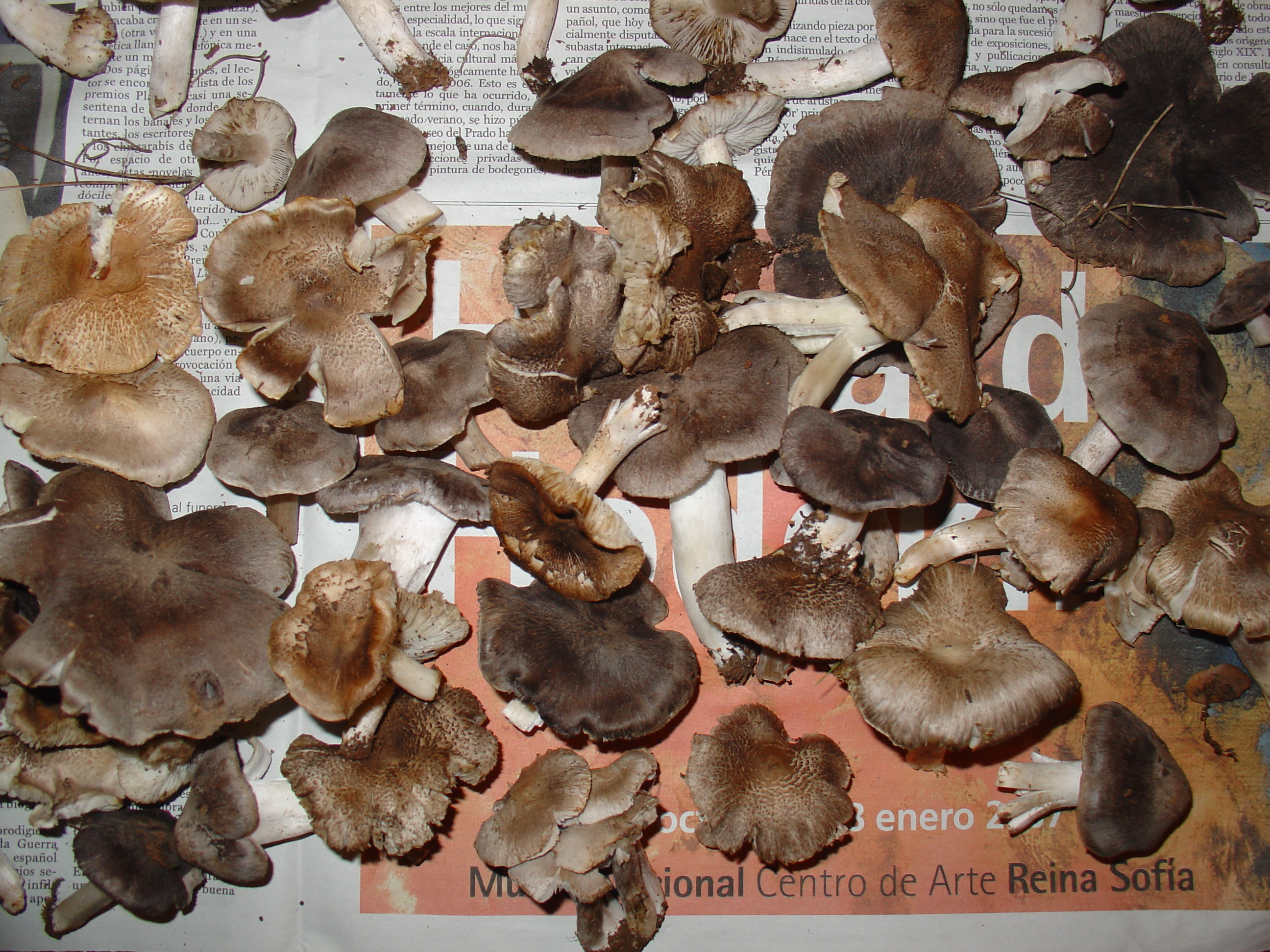 Some Tricholoma especies, including T. terreum, from Cuenca, Spain.